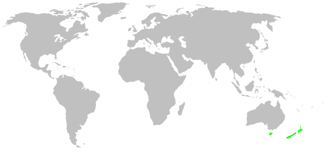 Holarchaeidae habitat distribution, drawn after Platnick: World Spider Catalog 7.0. This is not a precise rendering of the distribution! If you have better information, please replace this map, or send me the info, and i will redraw it.